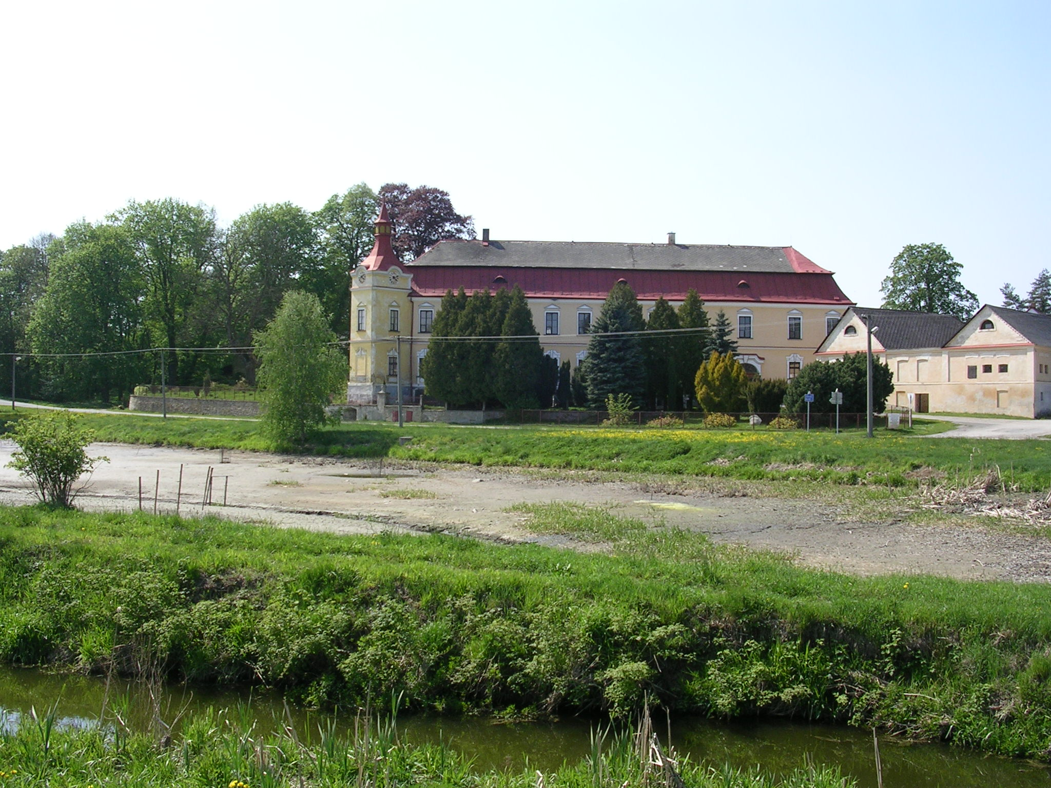 Strmilov-Česká Olešná, South Bohemian Region, the Czech Republic.